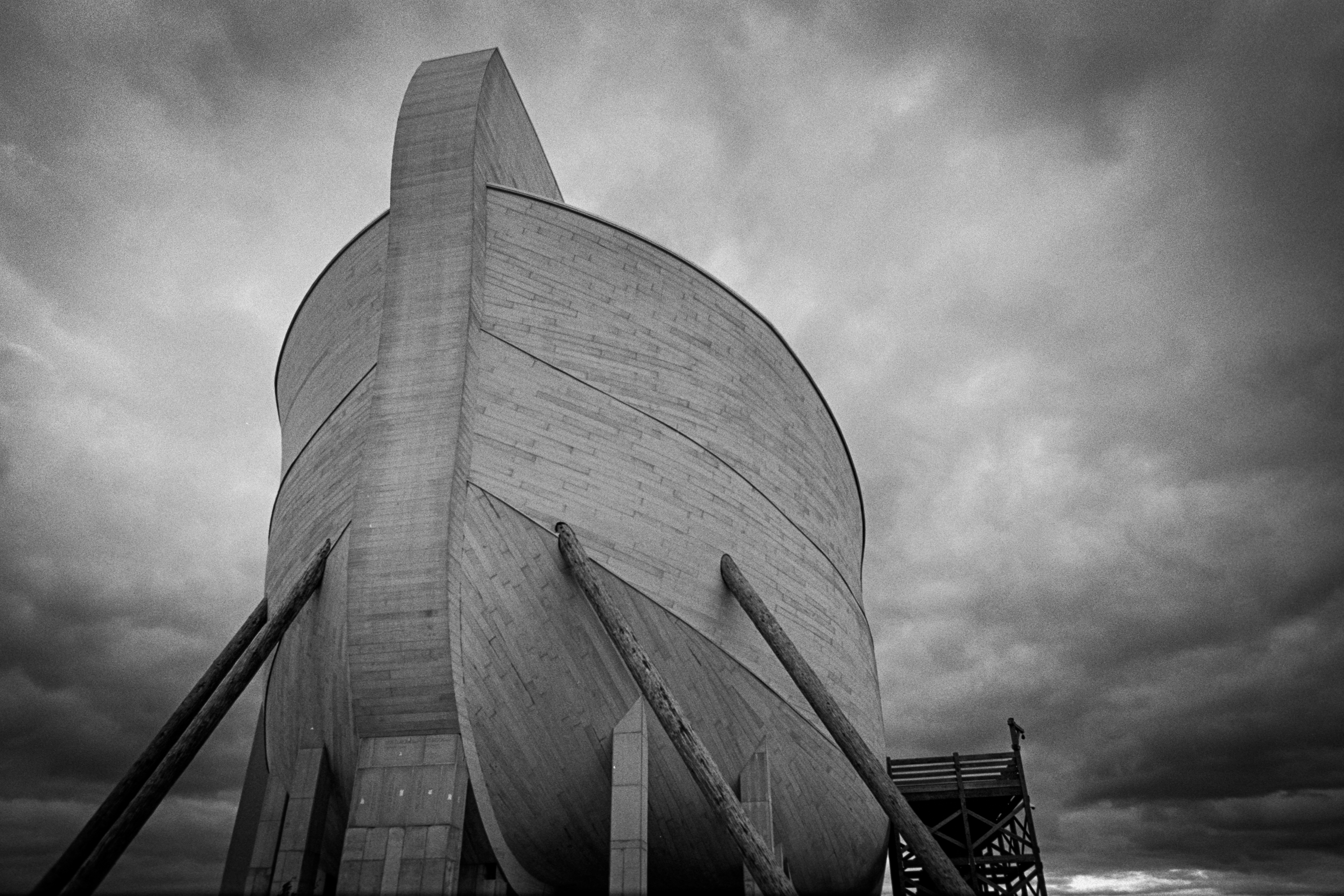 Shots from when we visited the Ark Encounter in KY built by Answers in Genesis.